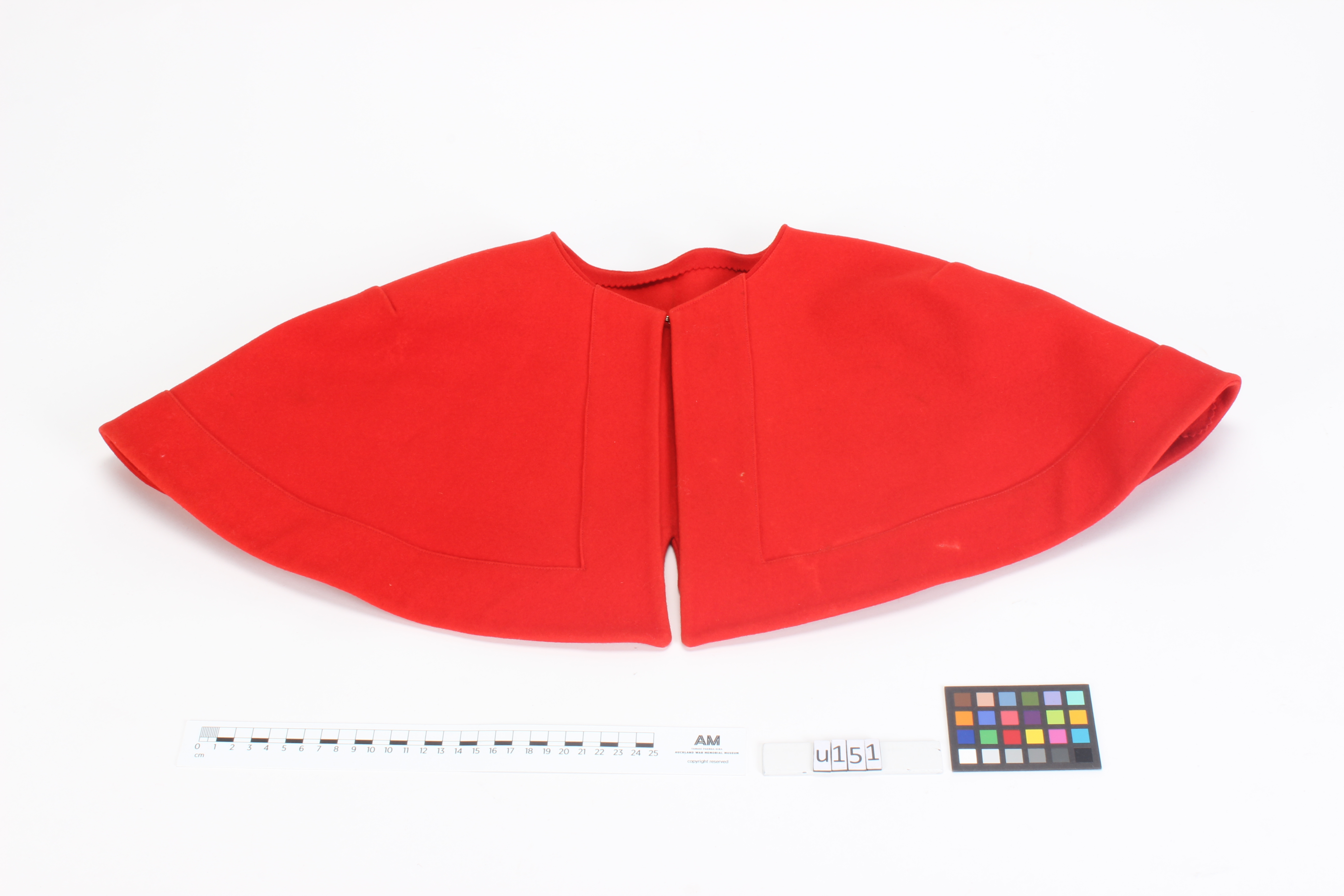 Mess dress cape, New Zealand Army Nursing Service, WW2 Belonged to S-N Roberta Spensley, NZANS red wool cloth shoulder length cape; good condition